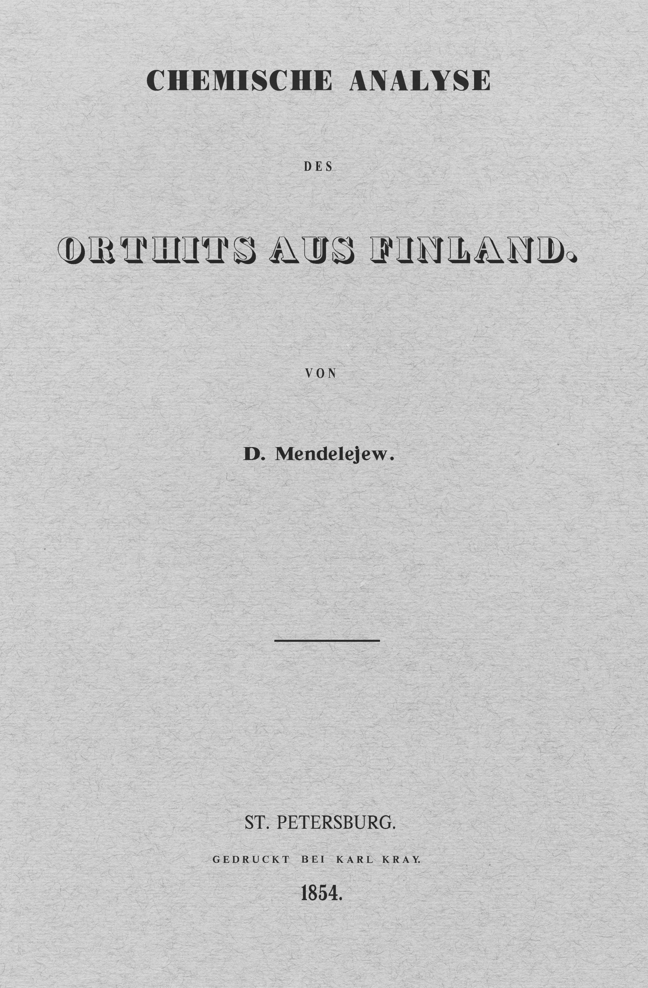 Cover of the first Mendeleev's publication: Chemische analyse des Orthits aus Finland. SPb: K. Kray. 1854